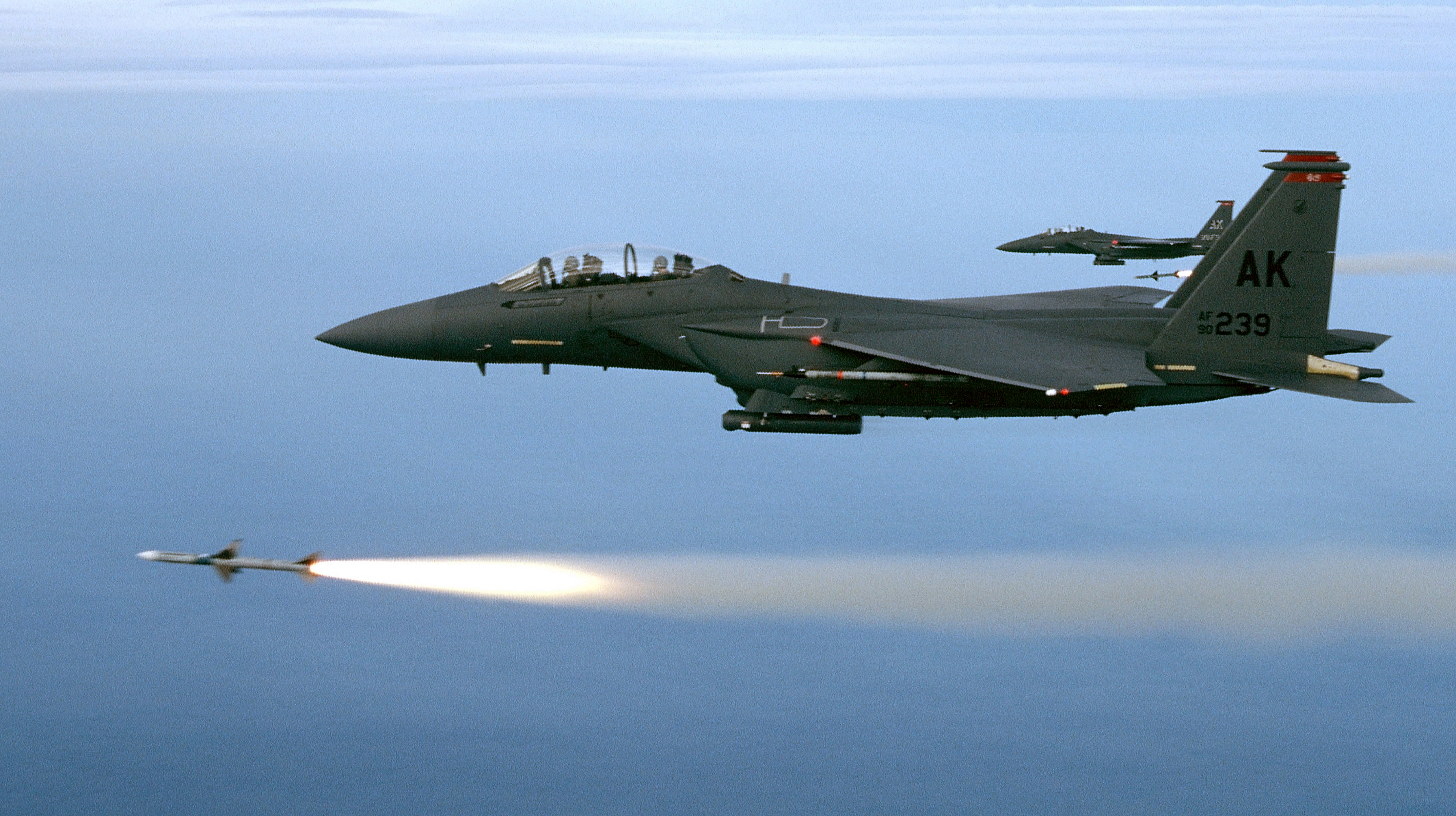 OVER THE GULF OF MEXICO -- Two F-15E from the 90th Fighter Squadron, Elmendorf Air Force Base, Alaska, fire a pair of AIM-7Ms during a training mission. The mission took place over the Gulf of Mexico just off the coast of Florida. (U.S. Air Force photo)